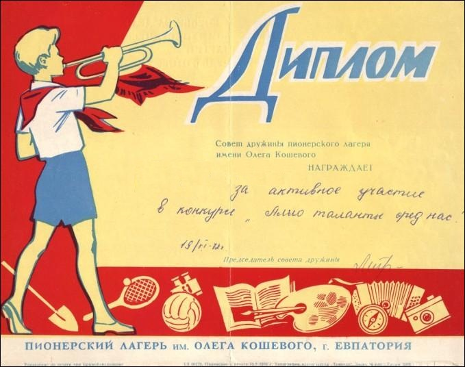 My own diploma.